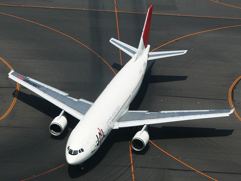 JAL A300-600R(JA014D)